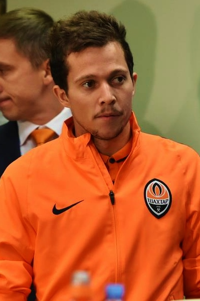 Bernard Anício Caldeira Duarte